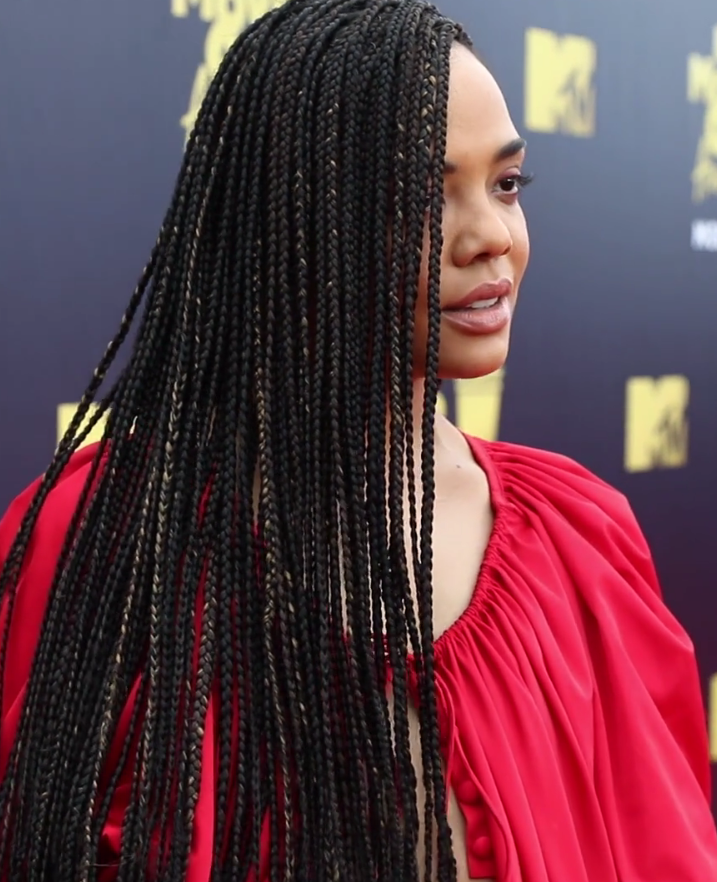 Tessa Thompson at 2018 MTV Movie & TV Awards Red Carpet